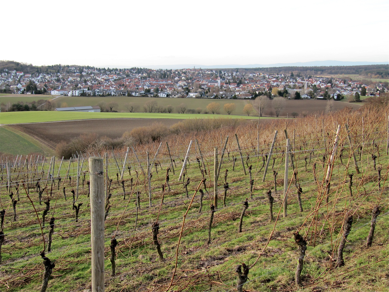 Roßdorf in Hesse, Germany